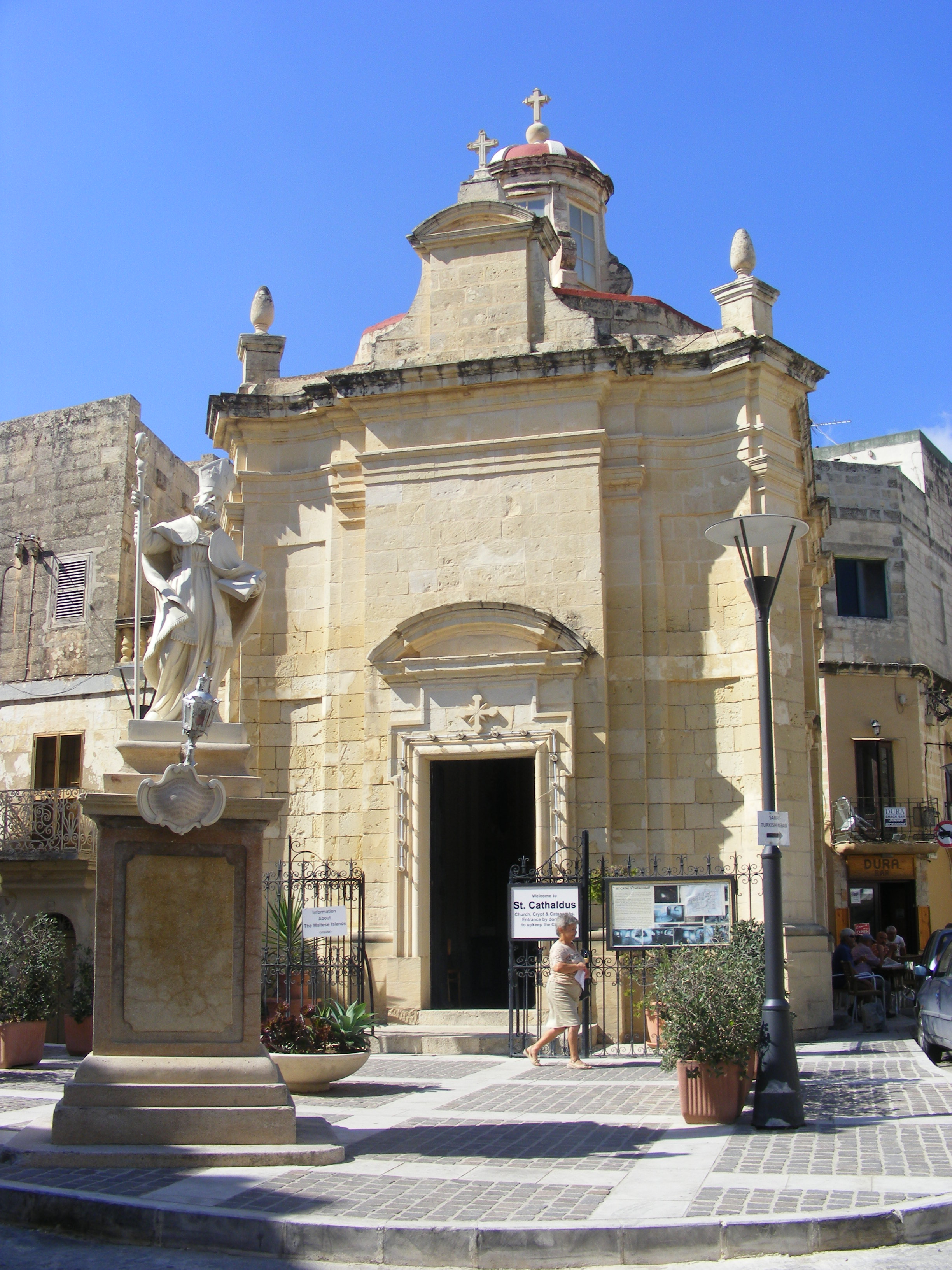 St Catald Church, Rabat, Malta